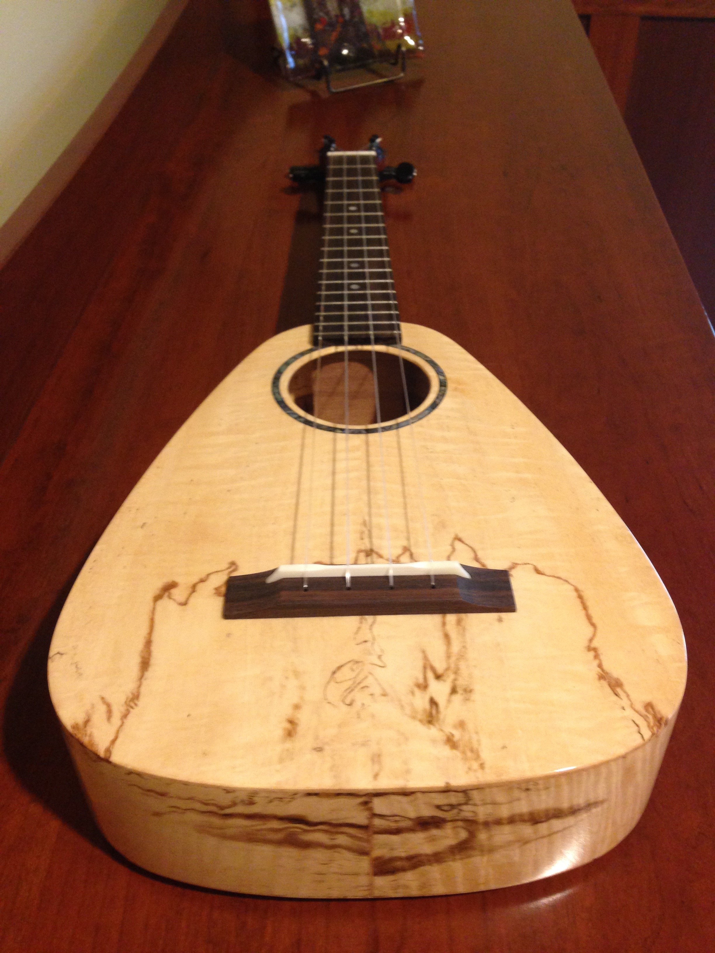 Fine line spalting in Mango wood. This spalted mango was used to construct a Romero Creations TinyTenor ukulele.